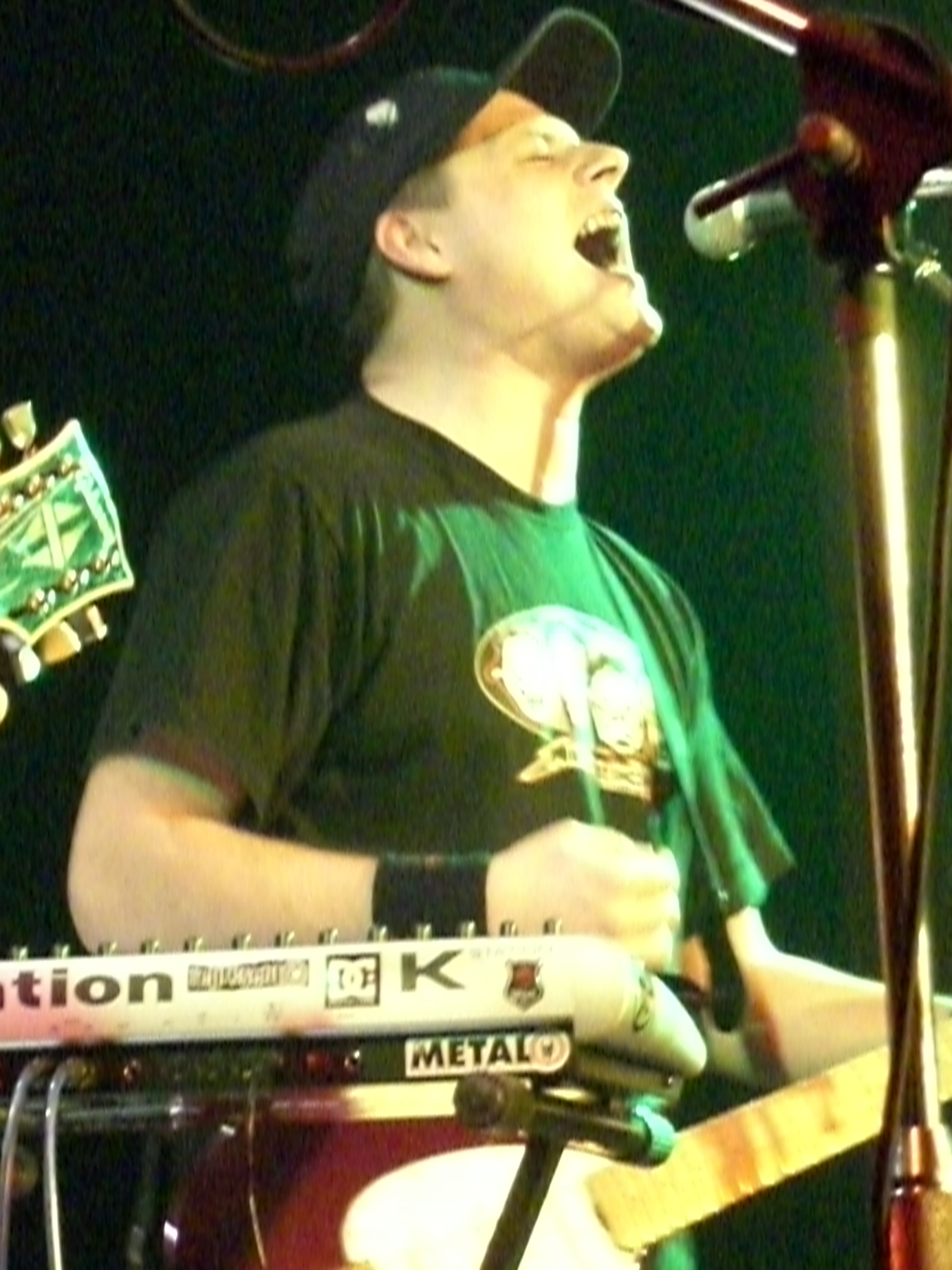 Czech big beat music grup Blue Effect in rock club Divadlo pod Čarou, Písek, 17.2.2007